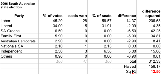 Gallagher Index for the 2006 South Australian state election. From 0-100, the disproportionality rating was 12.43.